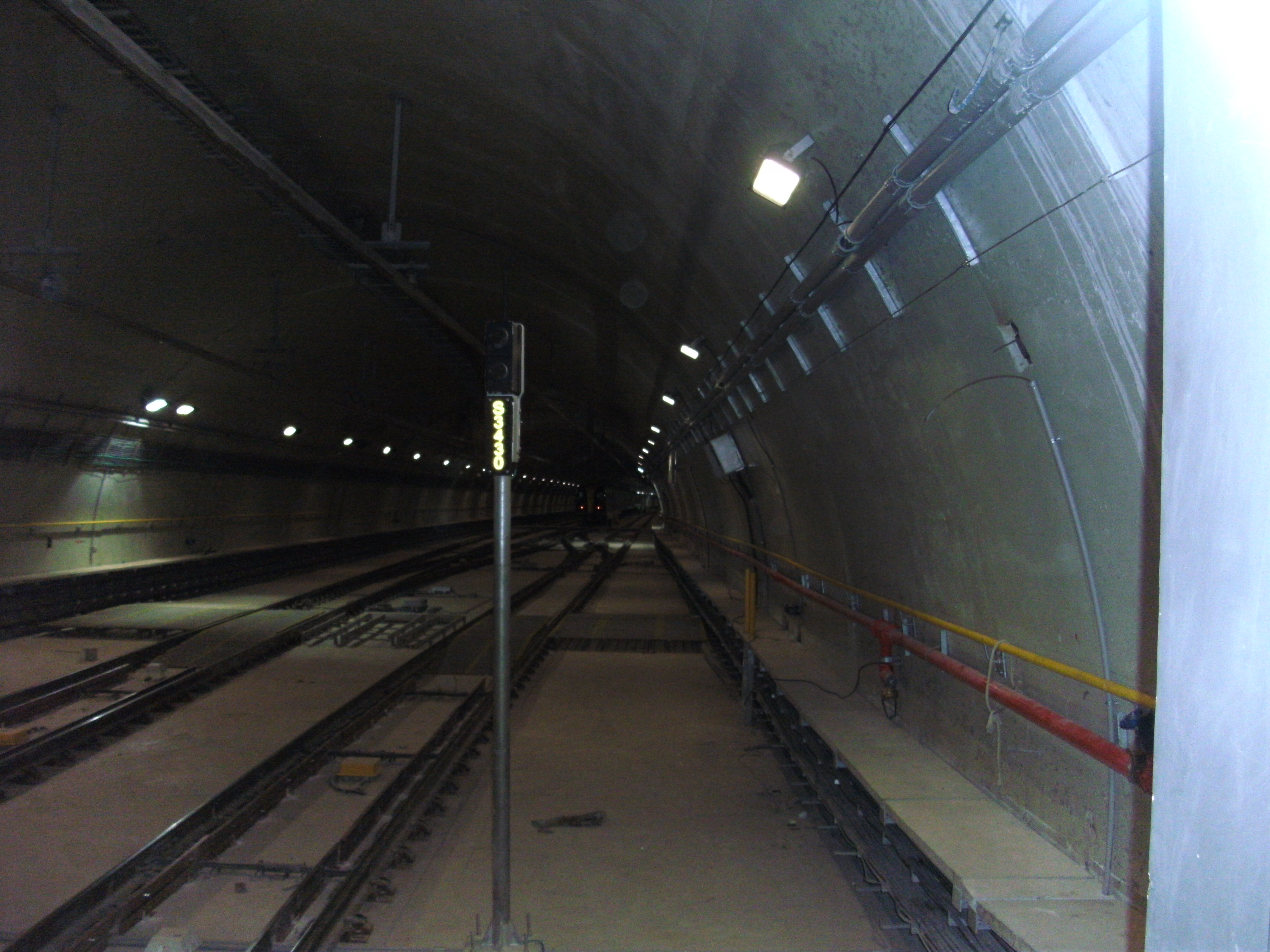 rails from four-line, metro of São Paulo